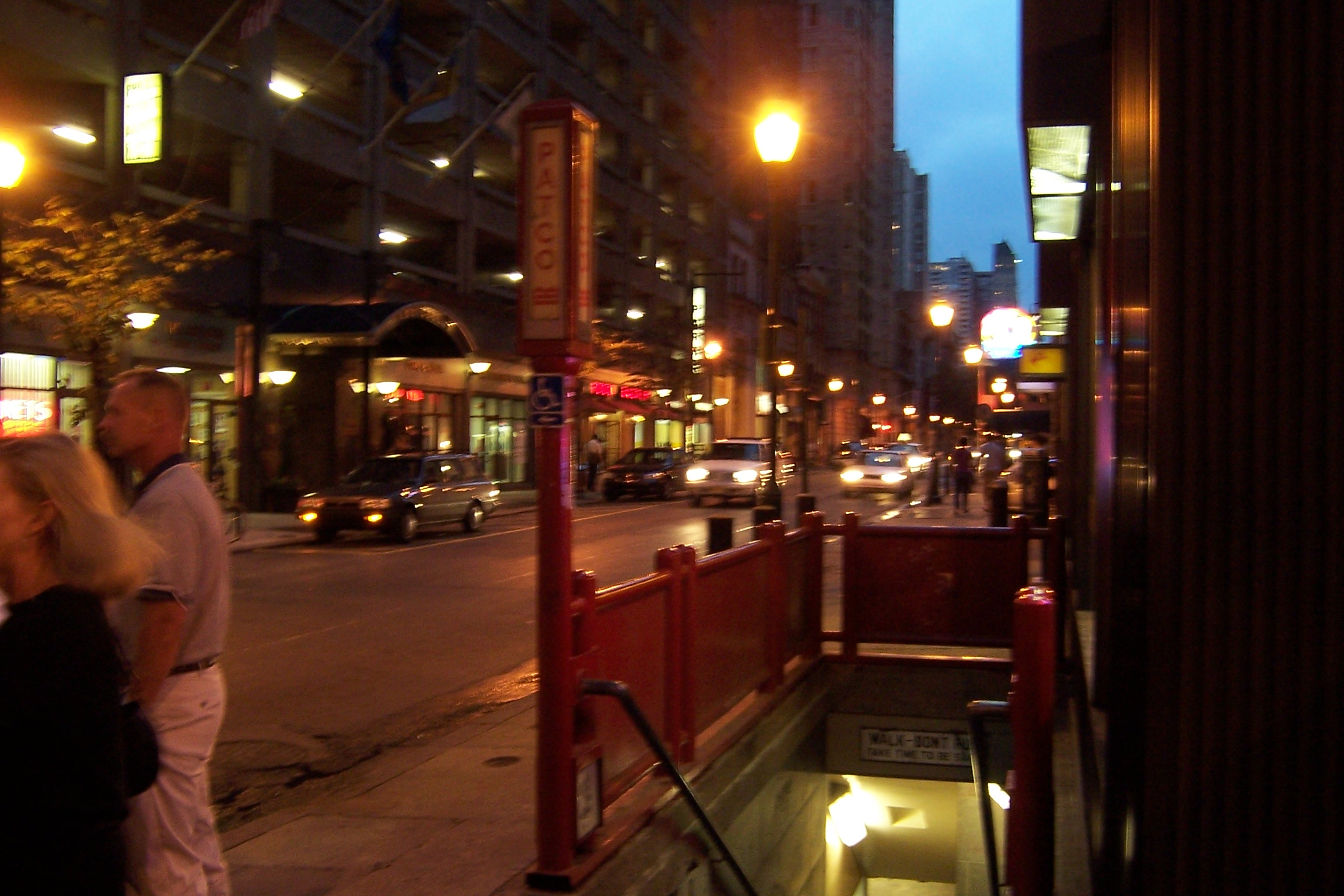 PATCO Speedline 15th-16th & Locust station exit.